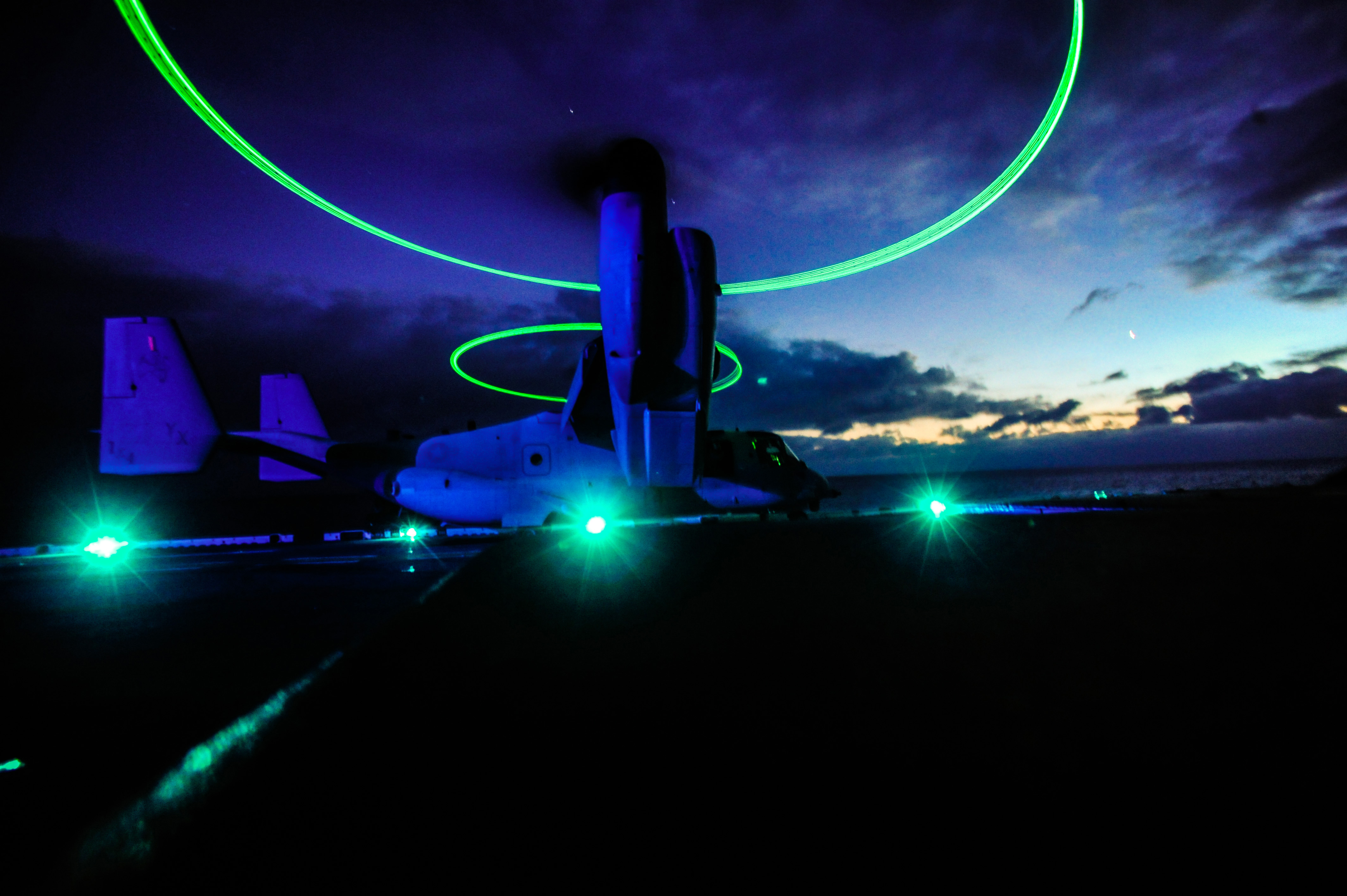 PACIFIC OCEAN (JULY 31, 2013) An MV-22 Osprey assigned to the Marine Medium Tiltrotor Squadron (VMM) 166 (Reinforced) takes off during flight operations aboard the amphibious assault ship USS Boxer (LHD 4). The Boxer Amphibious Ready Group (ARG) is underway off the coast of Southern California completing a certification exercise (CERTEX). CERTEX is the final evaluation of the 13th Marine Expeditionary Unit (13th MEU) and Boxer ARG prior to deployment and is intended to certify their readiness to conduct integrated missions across the full spectrum of military operations. (U.S. Navy photo by Mass Communication Specialist 3rd Class Brian Jeffries/Released) 130731-N-SV688-361 Join the conversation navylive.dodlive.mil